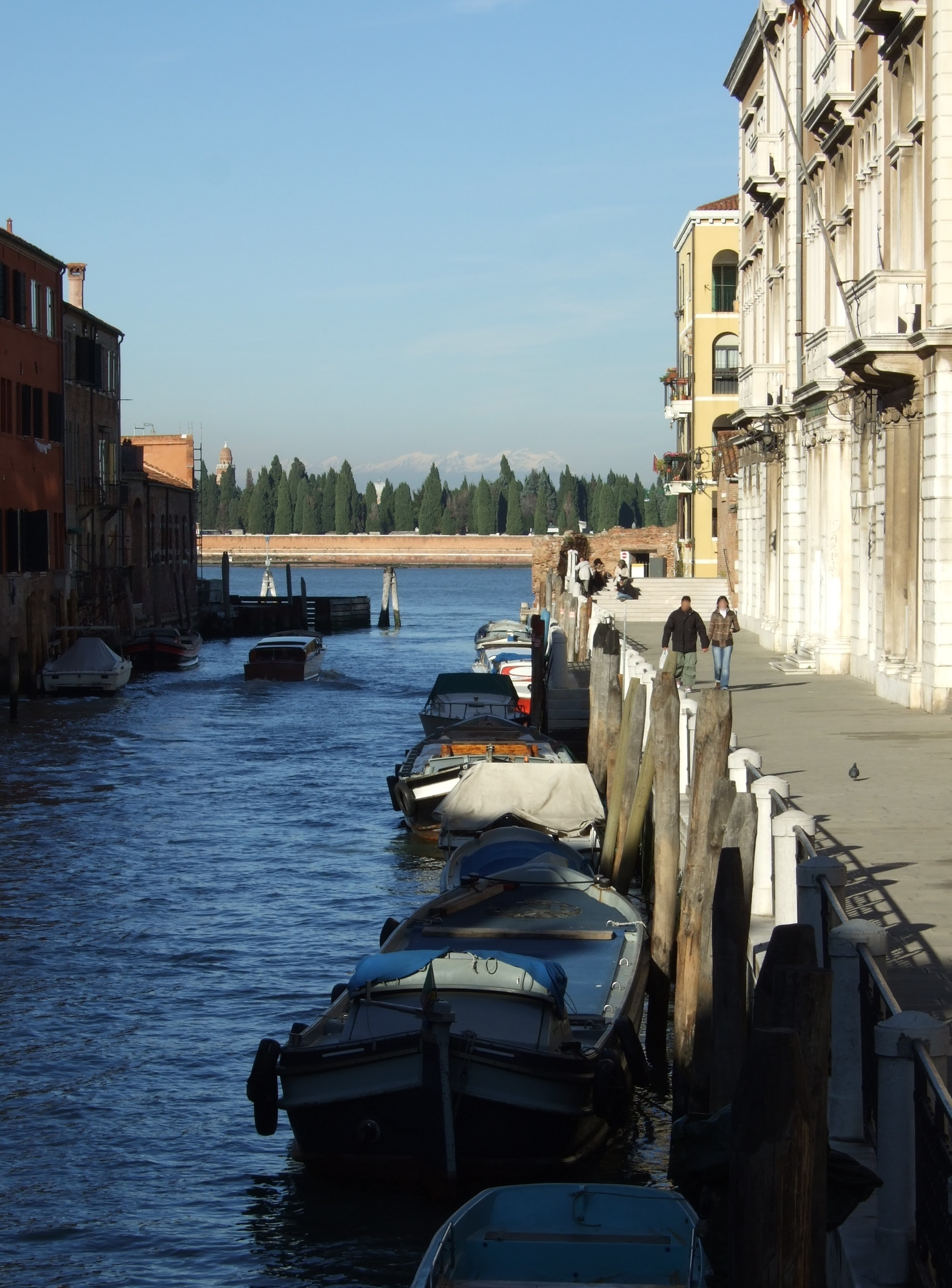 Rio di Santa Giustina, view to island of St. Michael, background snow covered alpine mountain tops (Venice)